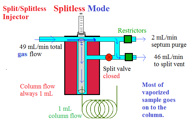 splitless mode